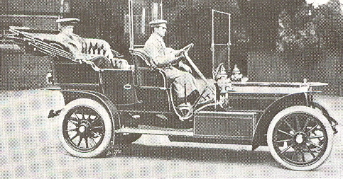 1905 Standard Tourer